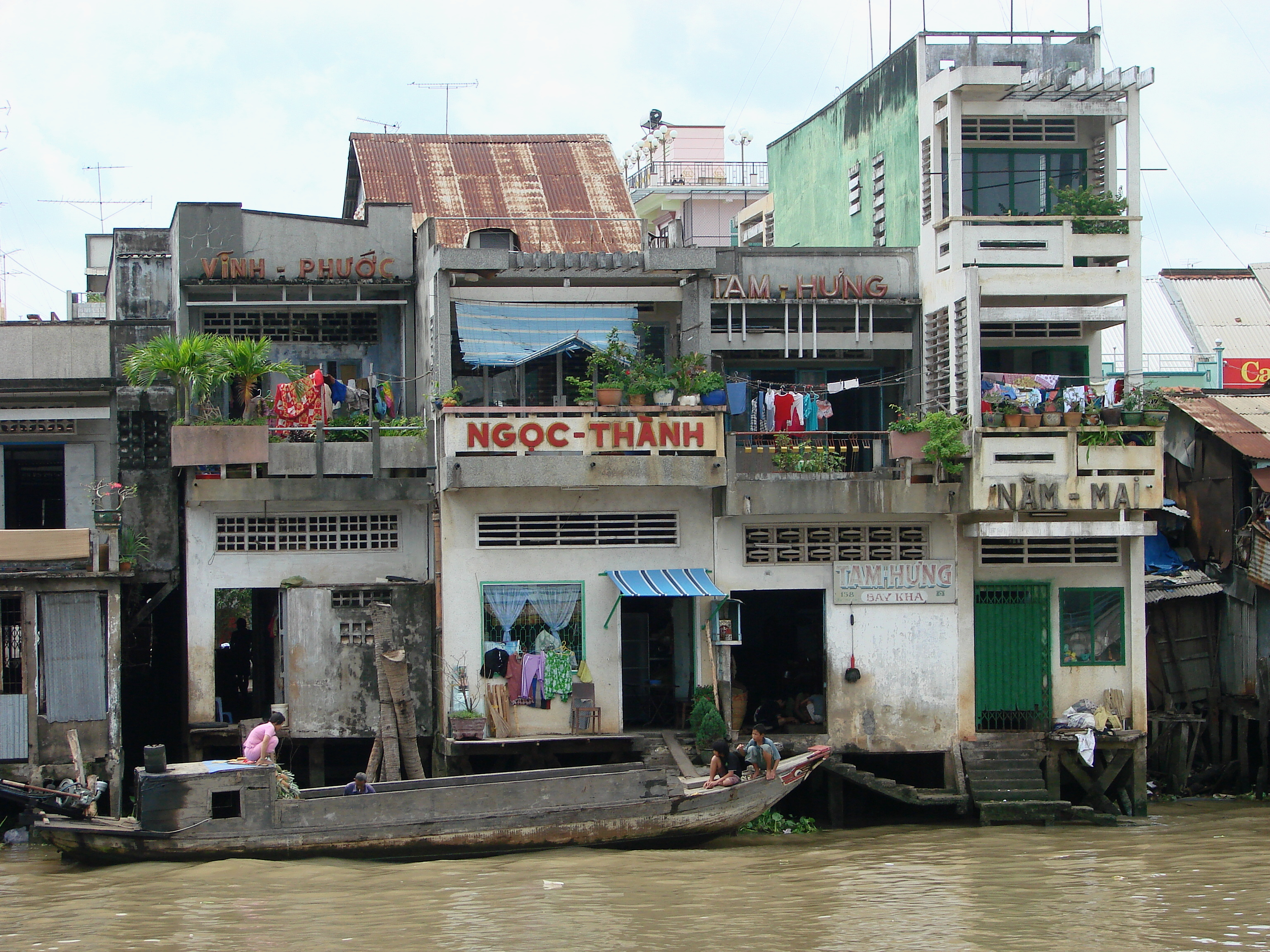 Along the waterfront at My Tho, Mekong delta, Vietnam. July 2009.